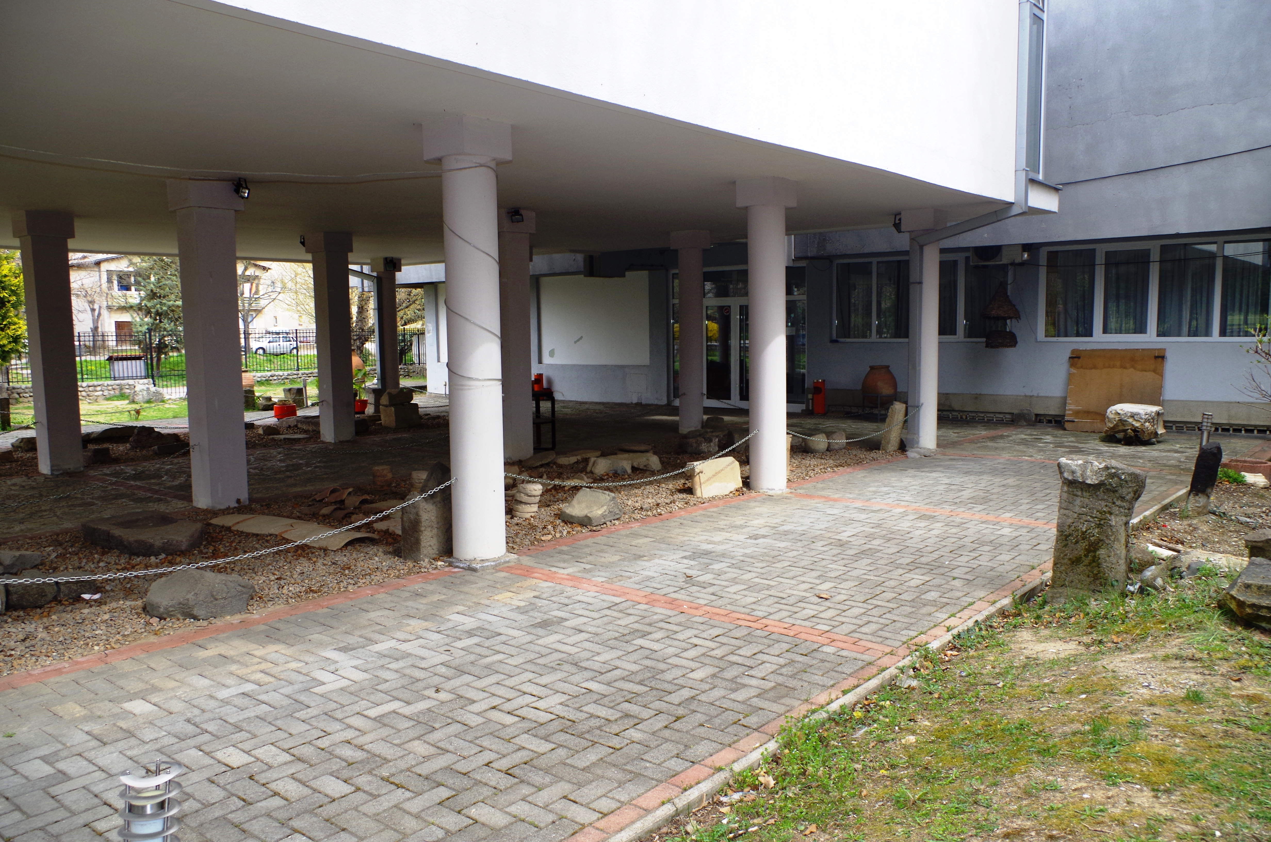 Negotino Town Museum